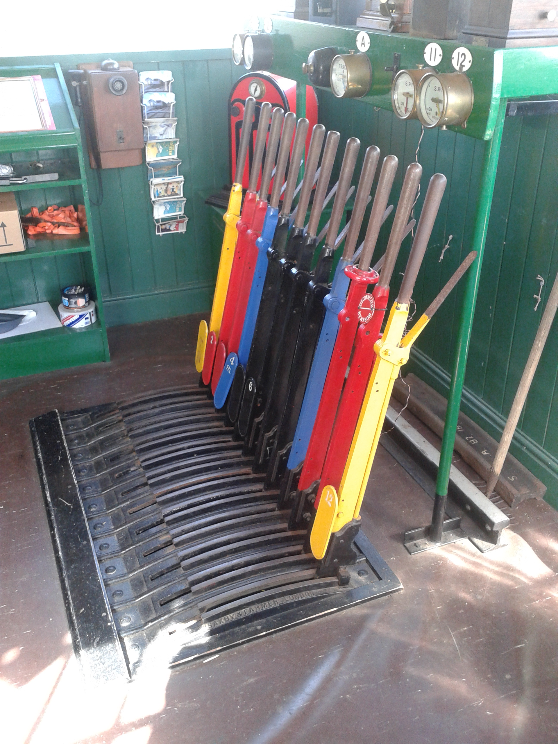 Interior of Bideford signal box on the disused Barnstaple to Torrington line in north Devon, now part of the Tarka Trail walking and cycling route. The signal box is a replica of the original.